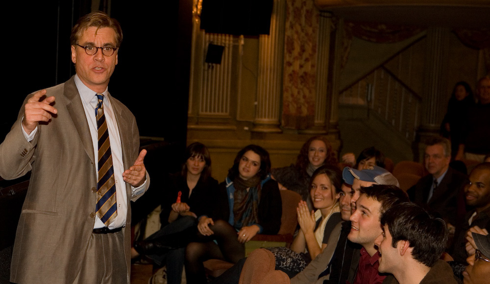 Aaron Sorkin discussing his play The Farnsworth Invention with an audience at the Music Box Theatre on November 8, 2007 (photo by photographer Eric Weiss).